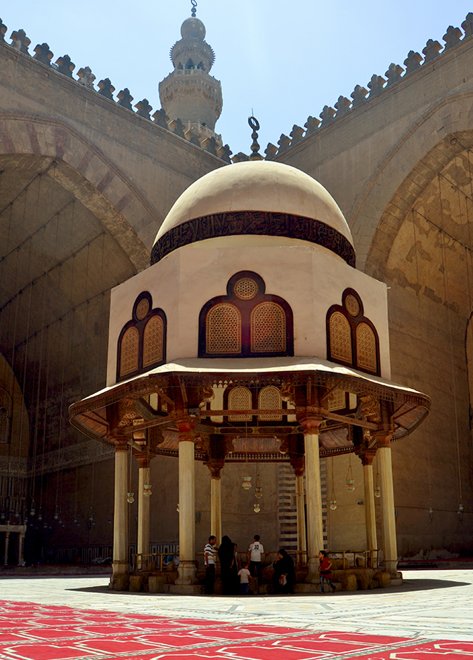 مكان الوضوء المسمى بالميضة من داخل جامع السلطان حسن